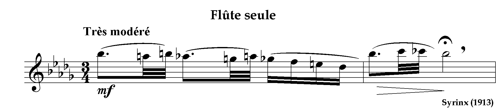 Debussy Syrinx